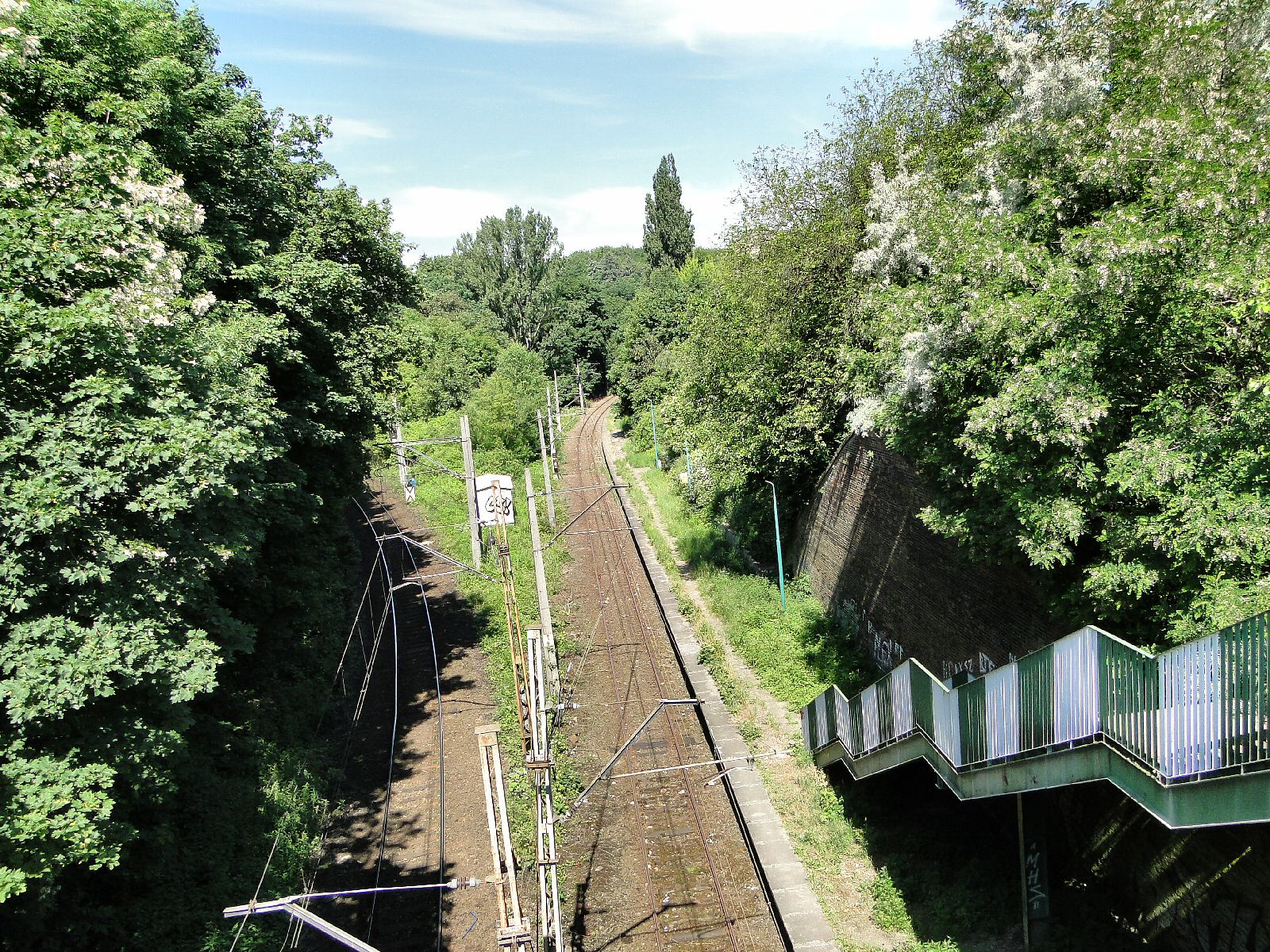 The picture was taken from the bridge of "Aleja Powstańców Wielkopolskich" in Szczecin, Poland across two railway lines. The left one is railway line 433 from Szczecin Główny towards Szczecin Gumieńce, the right track belongs to railway line 406 from Szczecin Główny towards Police and Trzebież Szczeciński. The platforms are out of service since 2002 and are located only at line 406. Lines 433 passes through.